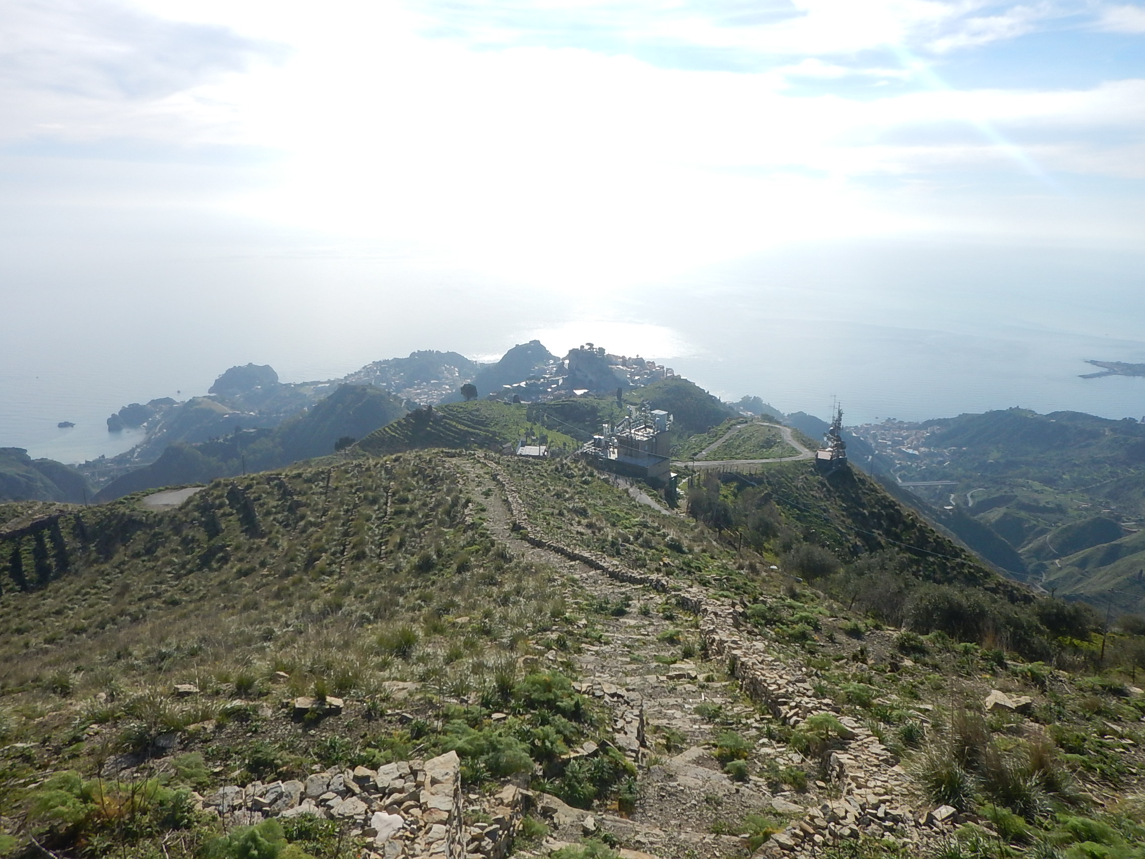 Taormina seen from Monte Venere, Peloritani mountains